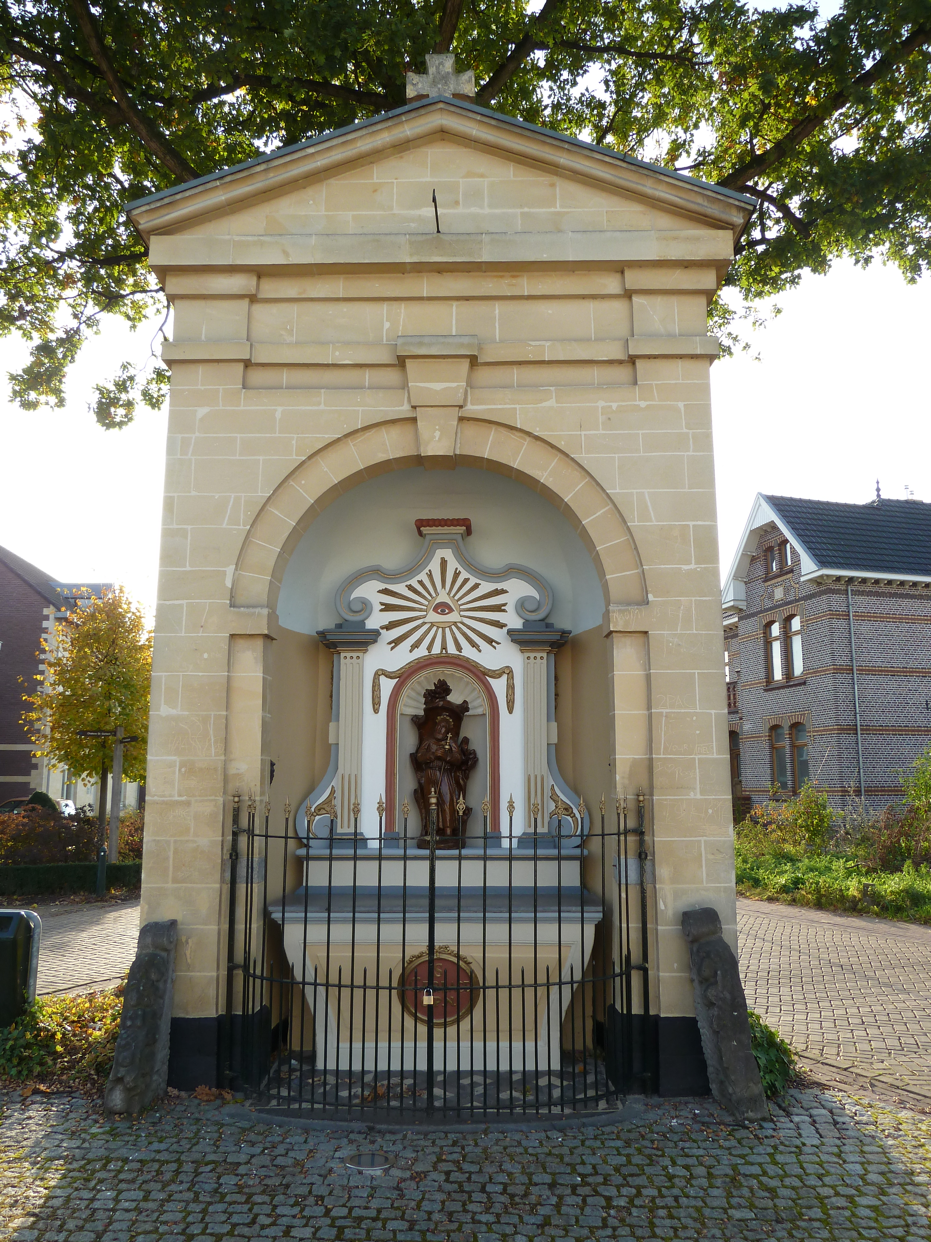 Gerlachuskapel, Houthem, Limburg, the Netherlands